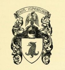 Auchinbowie House near Stirling, old family picture